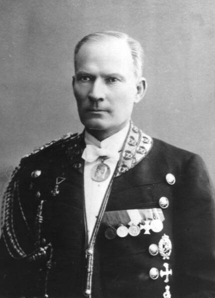 Aloise (Alexei) Yegorovich Trupp (Russian: Алоизий (Алексей) Егорович Трупп, 1858 - July 16, 1918), was a footman in the household of Tsar Nicholas II of Russia.